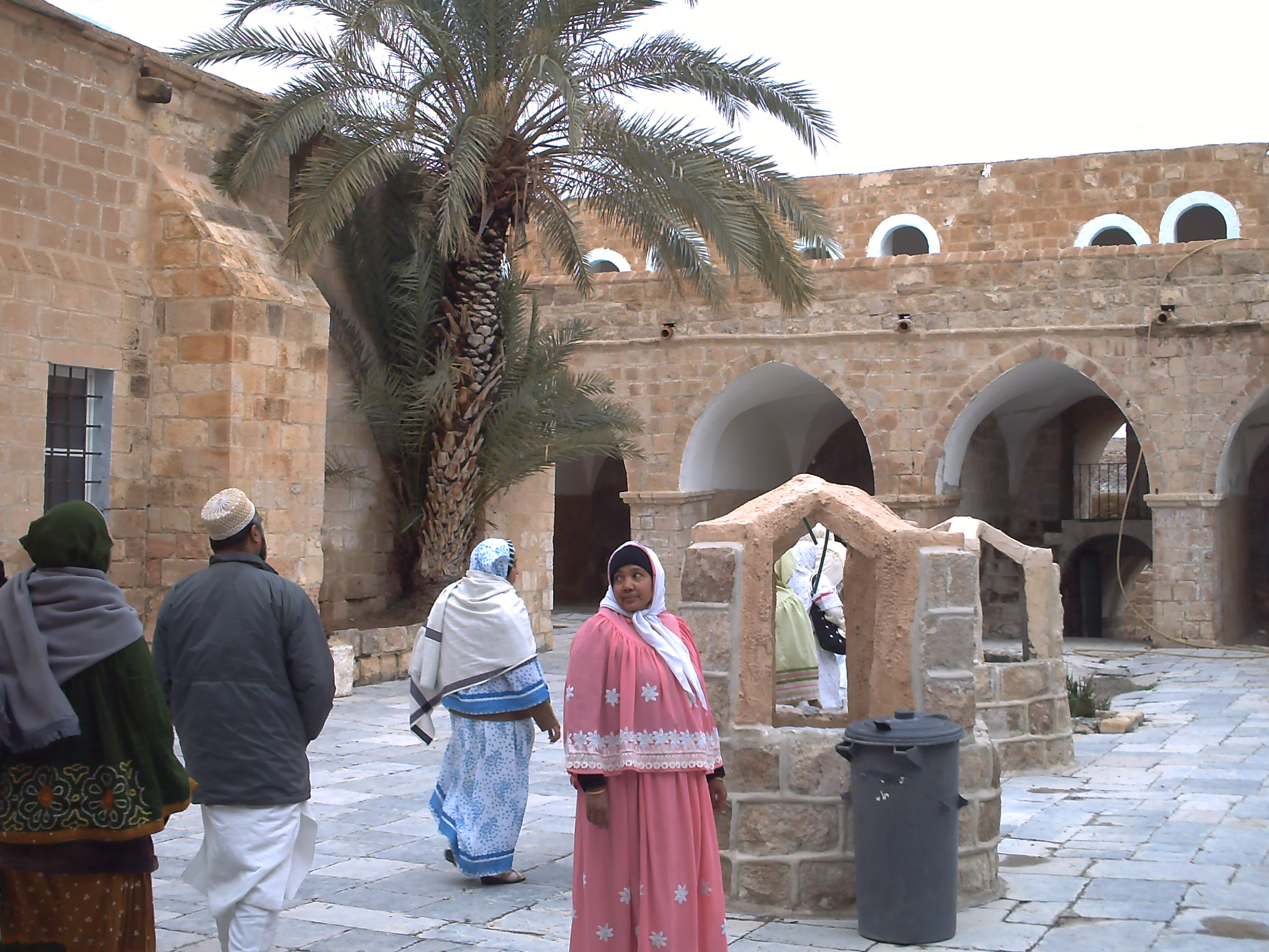 Court yard nabi Musa